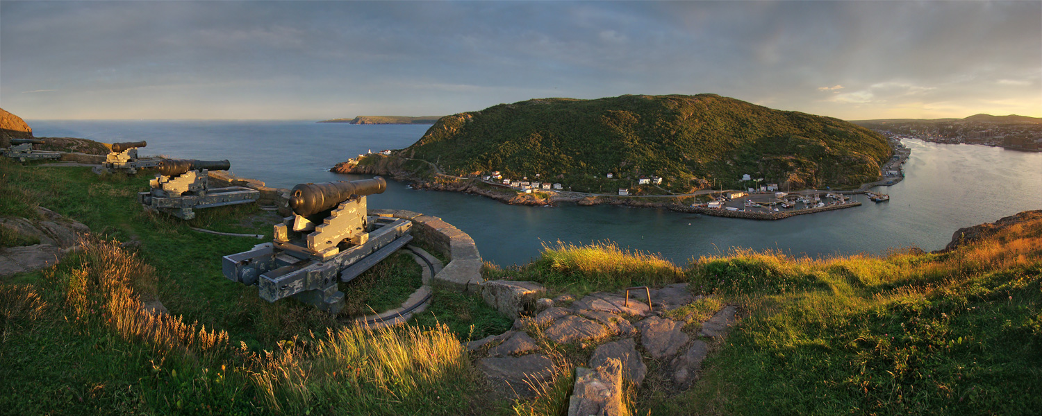 St. John's, Avalon Peninsula, Newfoundland, Canada. Sunset on Signal Hill: on the left in the foreground, the Queen's Battery; on the right, St. John's Harbour.